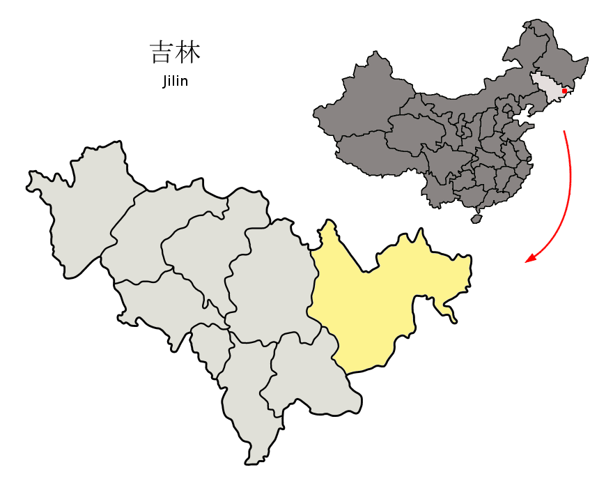 Location of Yanbian Prefecture (yellow) within Jilin Province of China Map drawn in november 2007 using various sources, mainly : Jilin Province administrative regions GIS data: 1:1M, County level, 1990 Jilin Counties map from